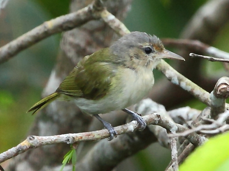 Buff-cheecked Greenlet at Manaus - AM - Brazil